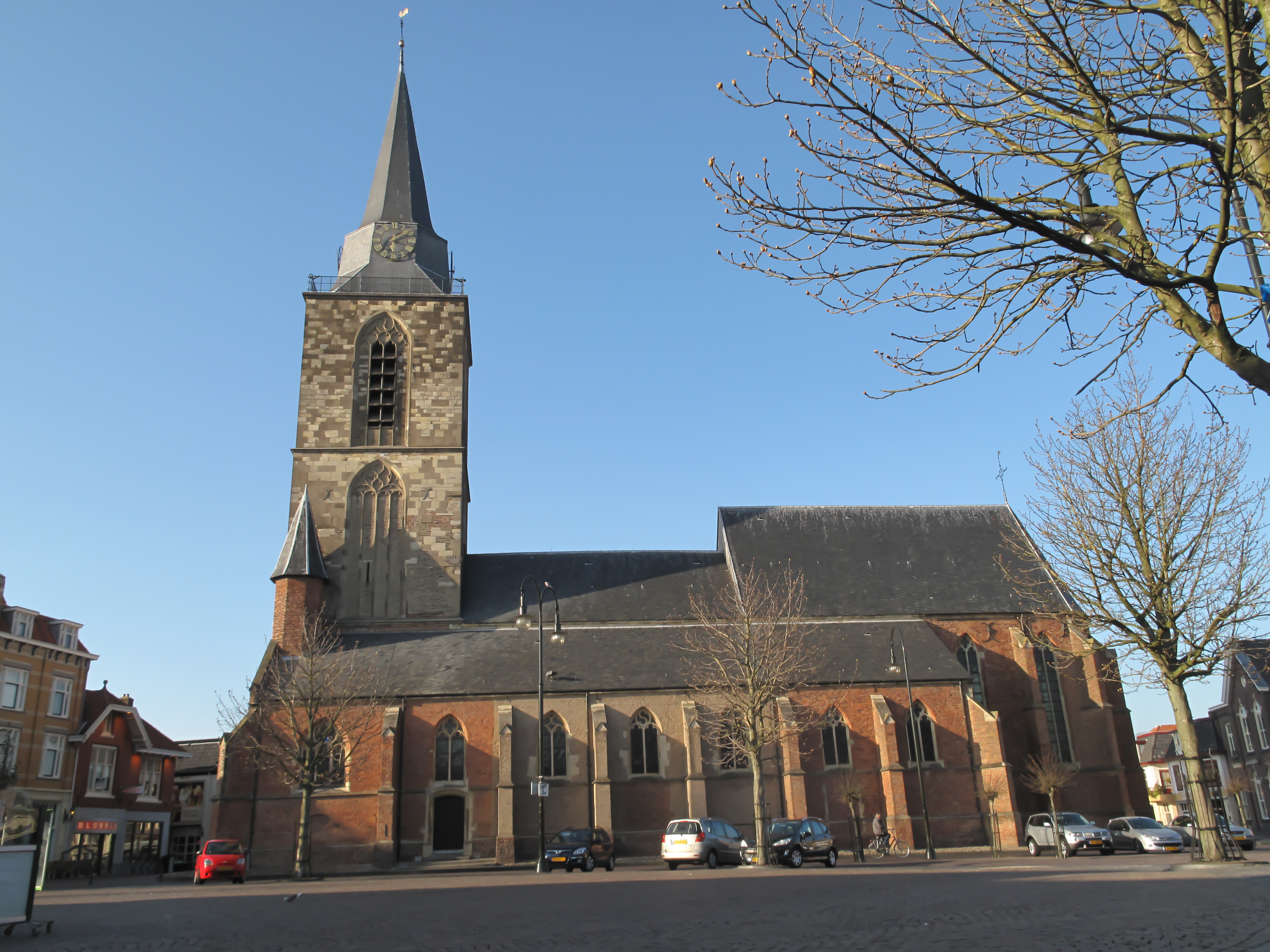 Winterswijk, church: de Jacobskerk